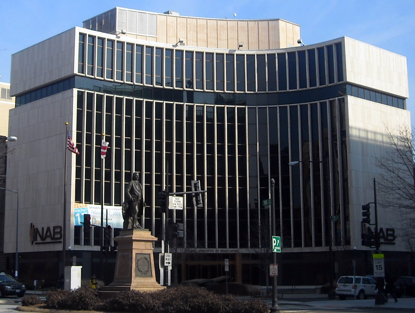 The National Association of Broadcasters headquarters located at 1771 N Street, NW in the Dupont Circle neighborhood of Washington, D.C. The statue of John Witherspoon is visible in the foreground. The site was originally occupied by the home of William Phelps Eno.